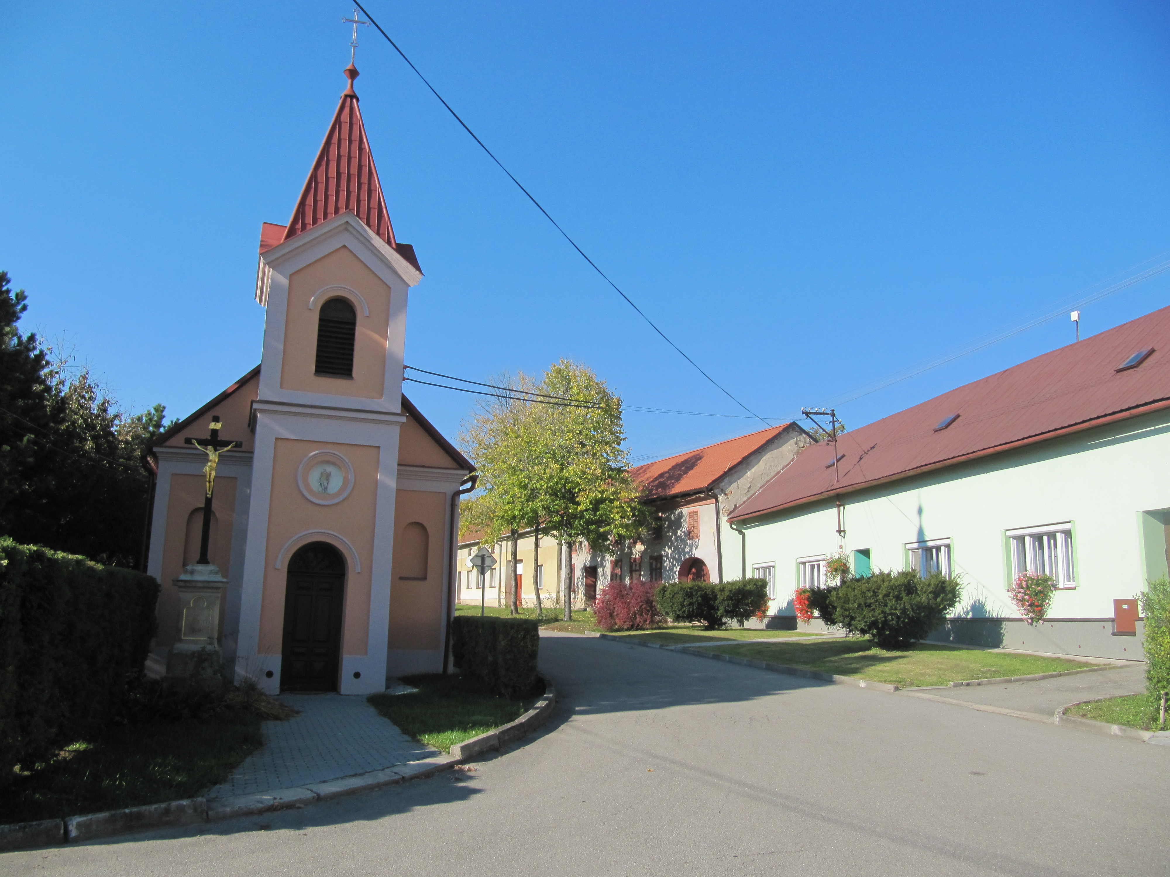 Nítkovice in Kroměříž District, Czech Republic. Chapel.